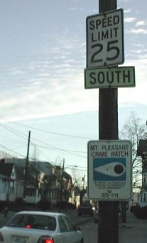 Lone SOUTH plate on River Street in Providence, Rhode Island. This was part of Route 10 from 1966 to 1972. Taken ca. 2001 by SPUI.